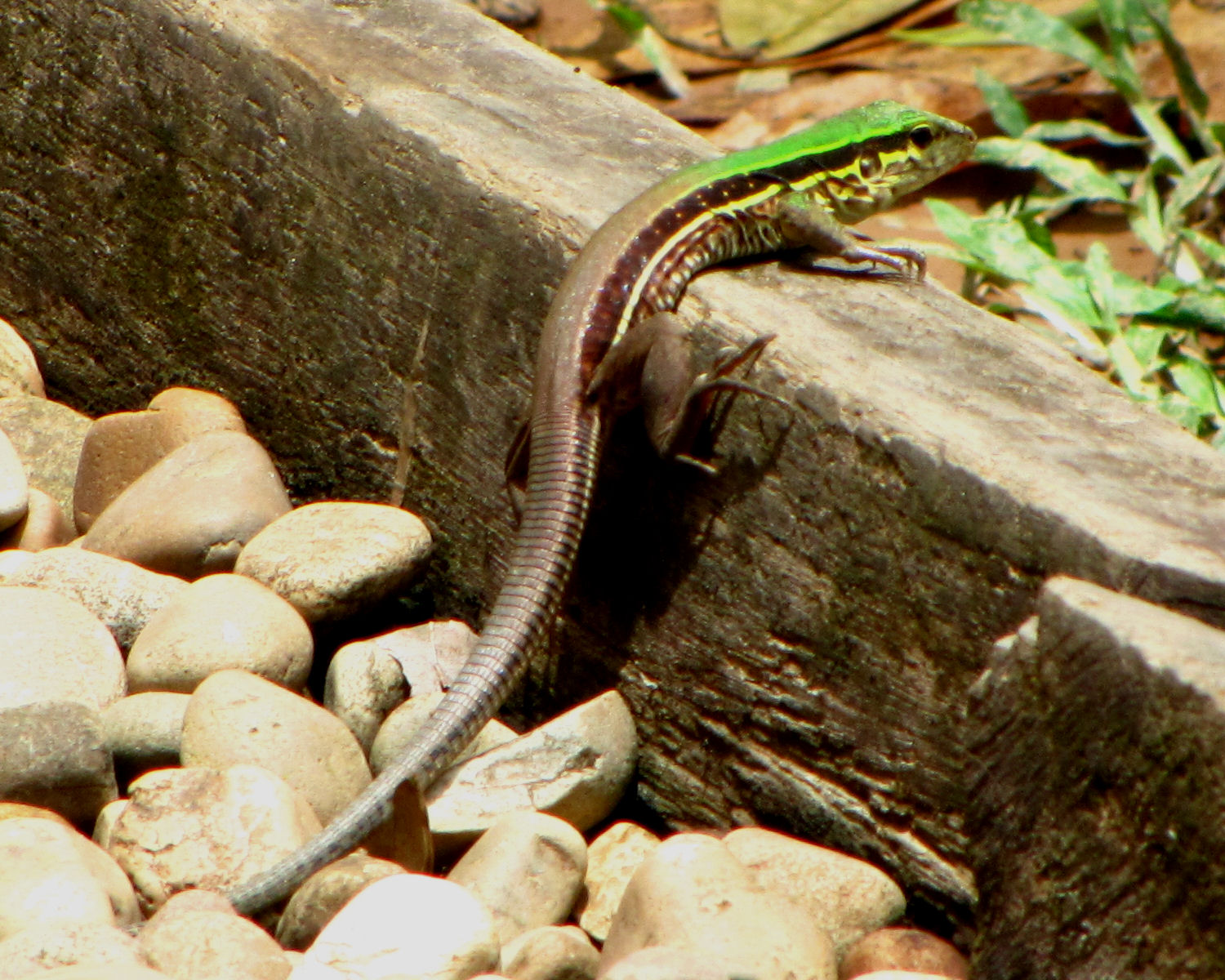 Giant Ameiva (Ameiva ameiva), juvenile, Tambopata Park, Peru